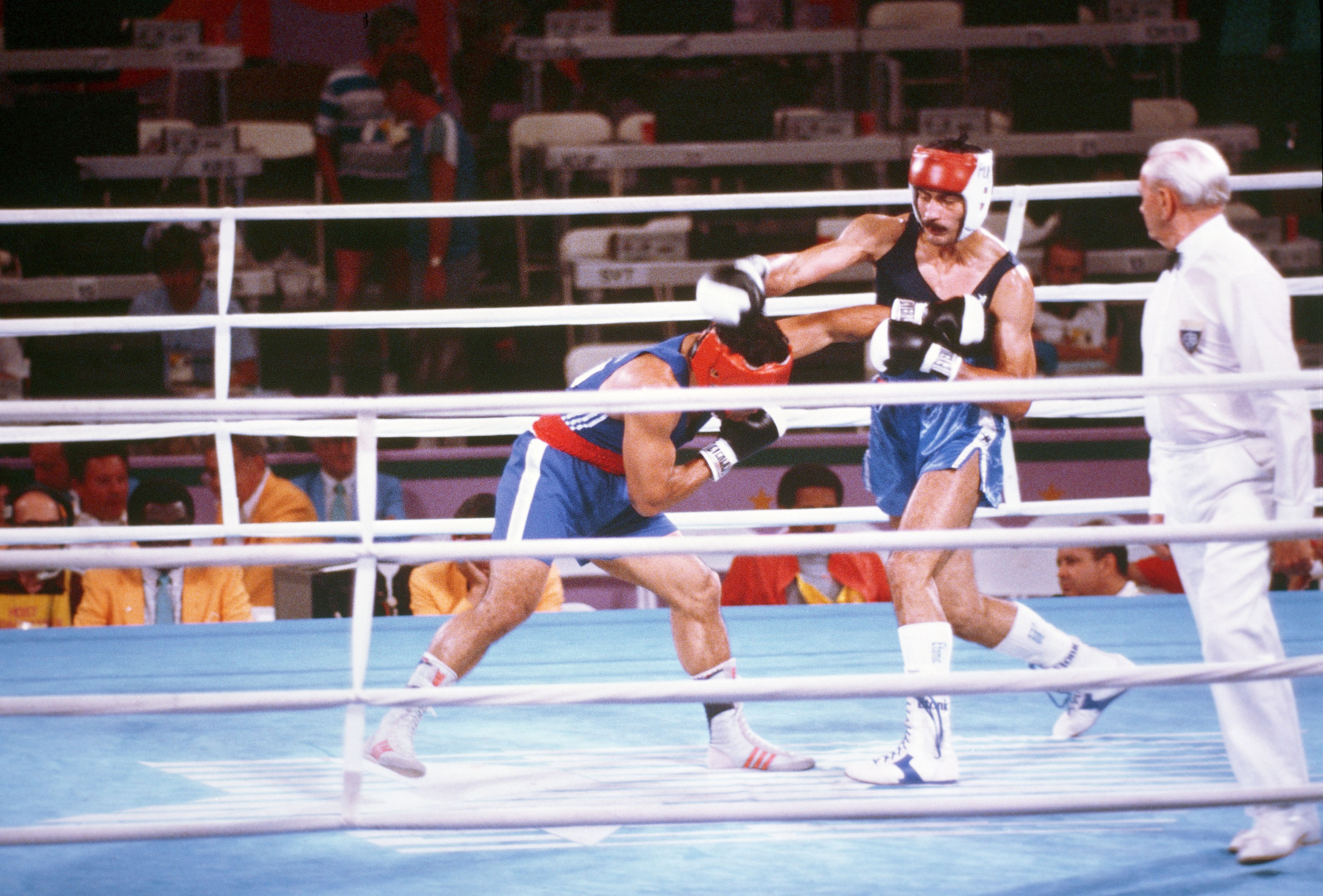 Army Specialist 4 Aristides Gonzalez, right, represents Puerto Rico in the boxing competition at the 1984 Summer Olympics. His opponent is Paulo Tuvale of Samoa.